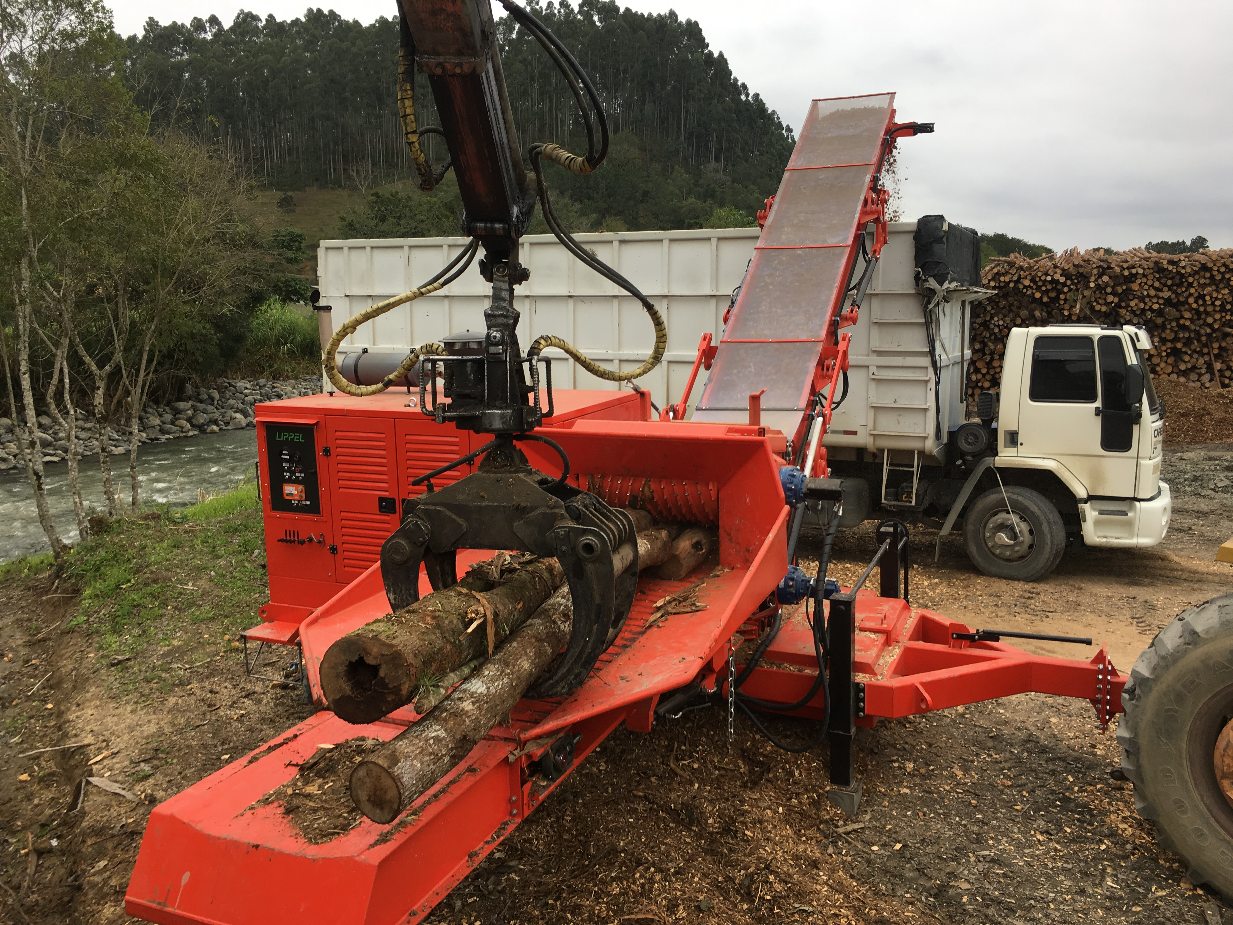 Mobile wood chipper with the intent of process trees into biomass for energetic burning in industries.